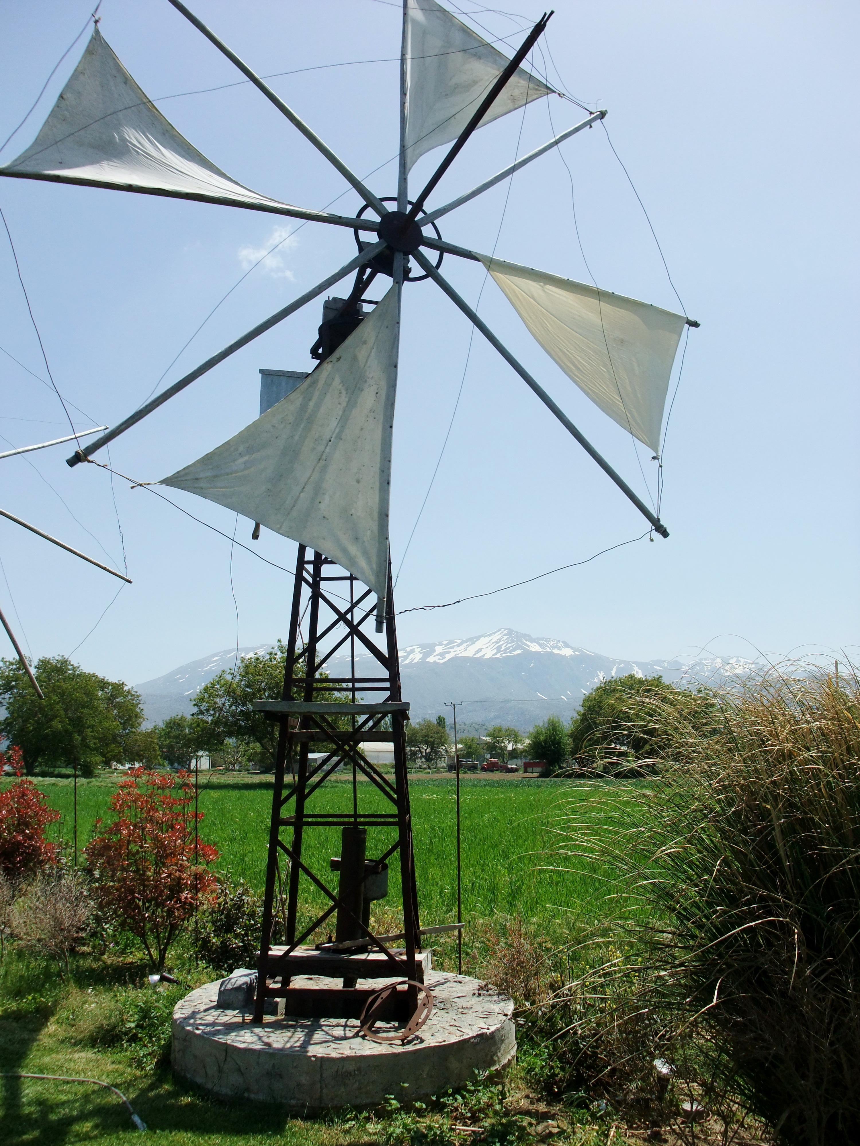 Windpump in Agios Georgios, Lasithi Plateau, Crete, Greece